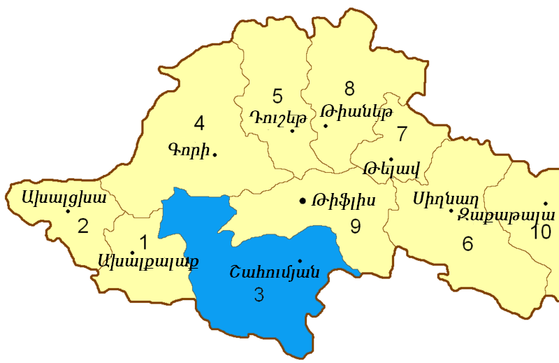 Tiflis Governorate